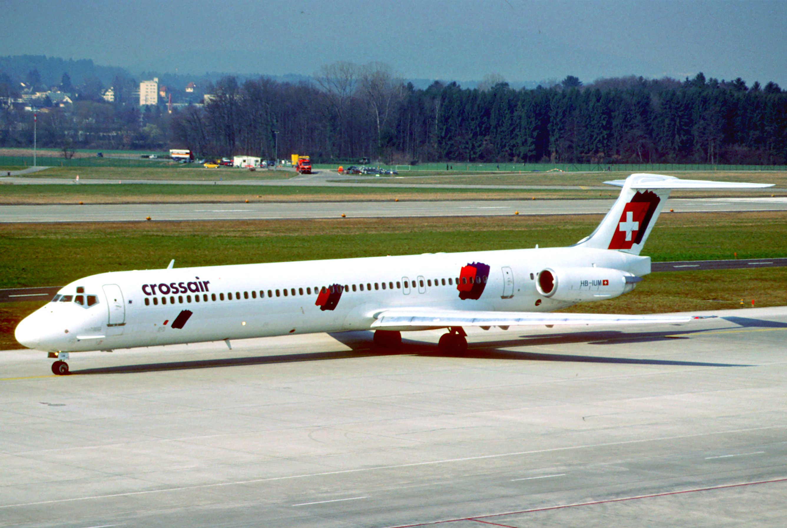 First flight: March 27, 1989...(c/n 49847/ 1585) 02/05/1989 Germanwings D-AGWC 30/10/1990 Aero Lloyd D-AGWC 12/11/1997 Crossair HB-IUM 30/03/2002 Swiss International Airlines HB-IUM stored at Nimes 10/2003 27/12/2003 Spirit Airlines N834NK 29/06/2006 Swiftair EC-JUG 04/07/2010 Wimbi Dira Airways EC-JUG 11/07/2011 Gryphon Air EC-JUG 15/01/2012 Swiftair EC-JUG